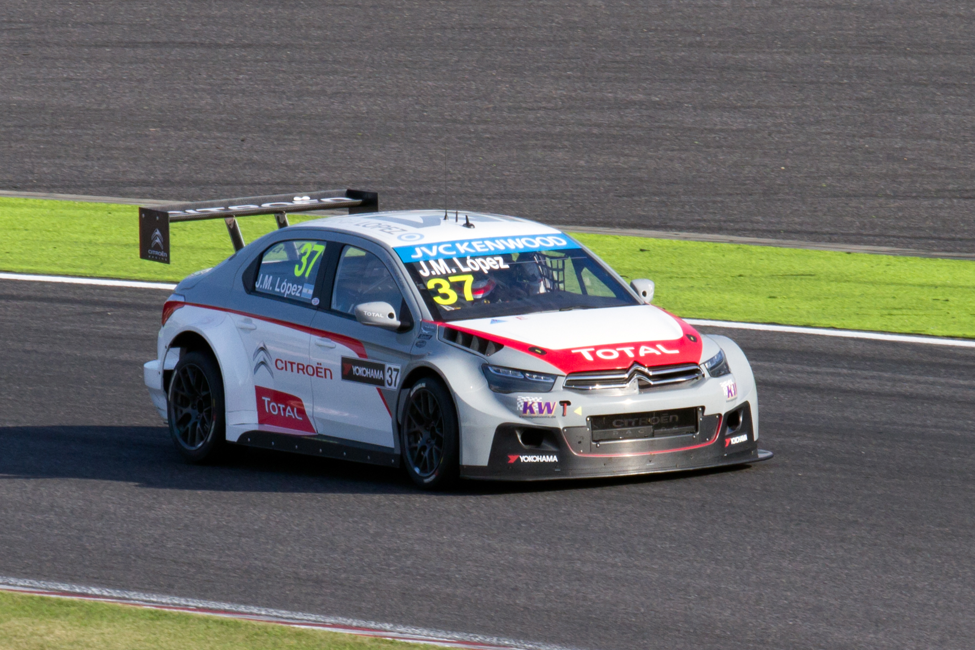 World Touring Car Championship 2014 Race of Japan: José María López (Citroën) won the championship.